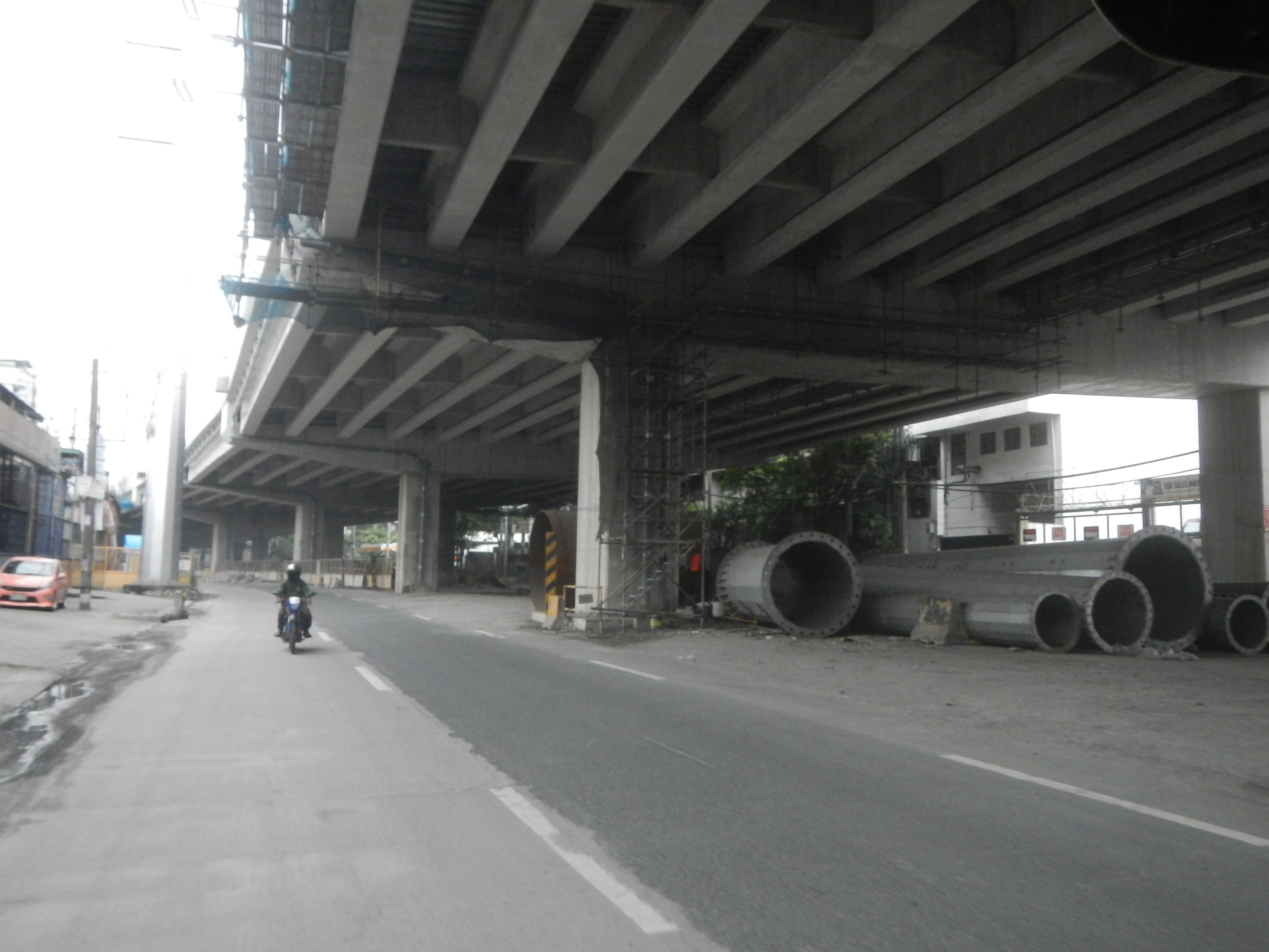 Cloudy skies due to monsoon and Tropical Depression Marilyn in Metro Manila Skyway Stage 3 Project Section 1 (Gregorio Araneta Avenue corners Banaue Street, Quezon Avenue & E. Rodriguez Sr. Avenue - Manresa, Talayan, Santo Domingo & Tatalon, SFDM) Gregorio Araneta Avenue Gregorio Araneta Avenue Extension Quezon Avenue to E. Rodriguez Sr. Avenue (C-5) 14°37'18"N 121°1'29"E Tropical Depression Marilyn Tropical Depression Marilyn Cloudy skies Metro Manila Skyway Stage 3 Skyway 3 interconnecting with North Luzon Expressway Segment 10.1 (Harbor Link, Phase II Manila, Caloocan City) constructions interconnecting with Circumferential Road 3 (Caloocan City section) Circumferential Road 3 Sgt. Rivera Avenue Skyway Stage 3 to partially open September, 2019 Skyway Stage 3 is an 18.68-kilometer elevated expressway stretched over Metro Manila from Gil Puyat or Buendia in Makati City to Balintawak, Caloocan and Quezon City; List of barangays of Metro Manila, Legislative districts of Quezon City Districts 4, Barangays of Quezon City, Manresa 14.6411, 120.9974 Talayan 14.6344, 121.0081 Santo Domingo 14.6295, 121.0044 and Tatalon 14.6234, 121.0108 Quezon City interconnecting with C-3 Road-Sgt Rivera St. near cor A. Bonifacio Ave. (Quezon City) 14°38'38"N 120°59'39"E to Banawe Street 14°38'17"N 121°0'2"E to Terminus North Luzon Expressway, in Balintawak, Philippine highway network (Note: Judge Florentino Floro, the owner, to repeat, Donor Florentino Floro of all these photos hereby donate gratuitously, freely and unconditionally Judge Floro all these photos to and for Wikimedia Commons, exclusively, for public use of the public domain, and again without any condition whatsoever).